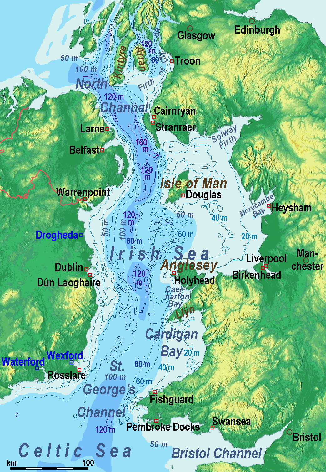 A map of the Irish Sea. Major ports shown with red marks. freight-only ports in blue. The old map with this lemma had significant mistakes of the bathymetry. Therefore on 2014-05-11, it was exchanged for a completely new map. Now the bathymetric content is an own work based on various informations. The countures of depth are drawn according to the UK source, the areal colours are derived from the Irish one. The land is from Maps for Free.